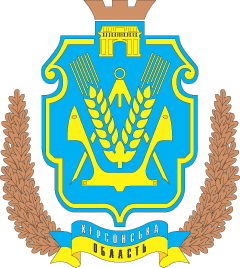 Coat of Arms of Kherson Oblast, Ukraine